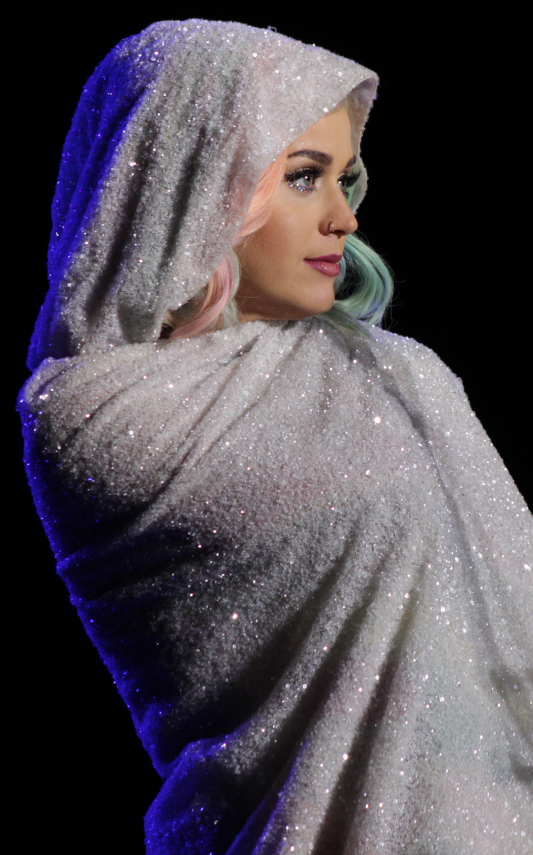 Katy Perry performing during the Prismatic World Tour in Santiago, Chile